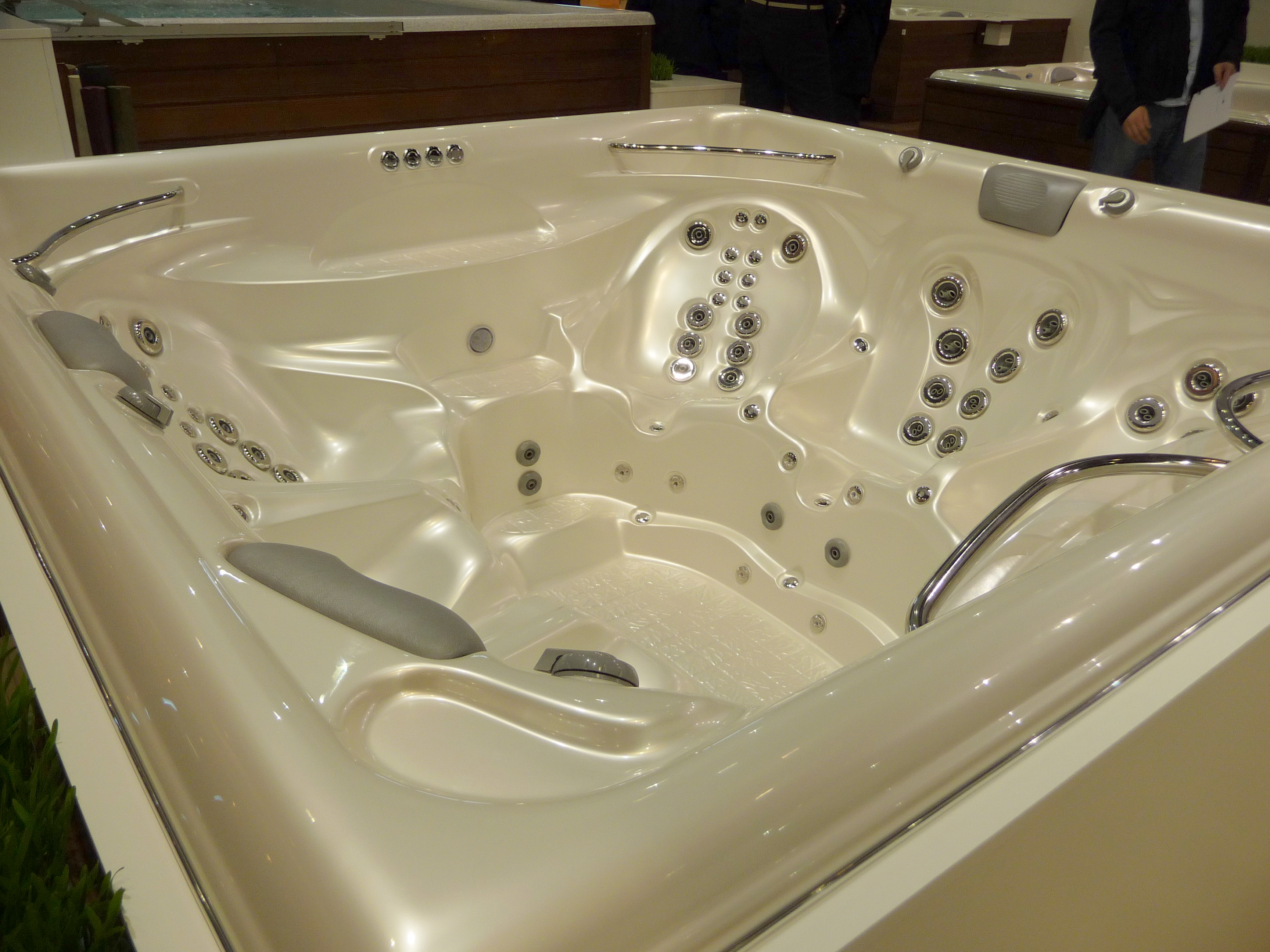 Hot tub, Building Fairs Brno 2011 -10-5-3-2◄►+2+3+5+10